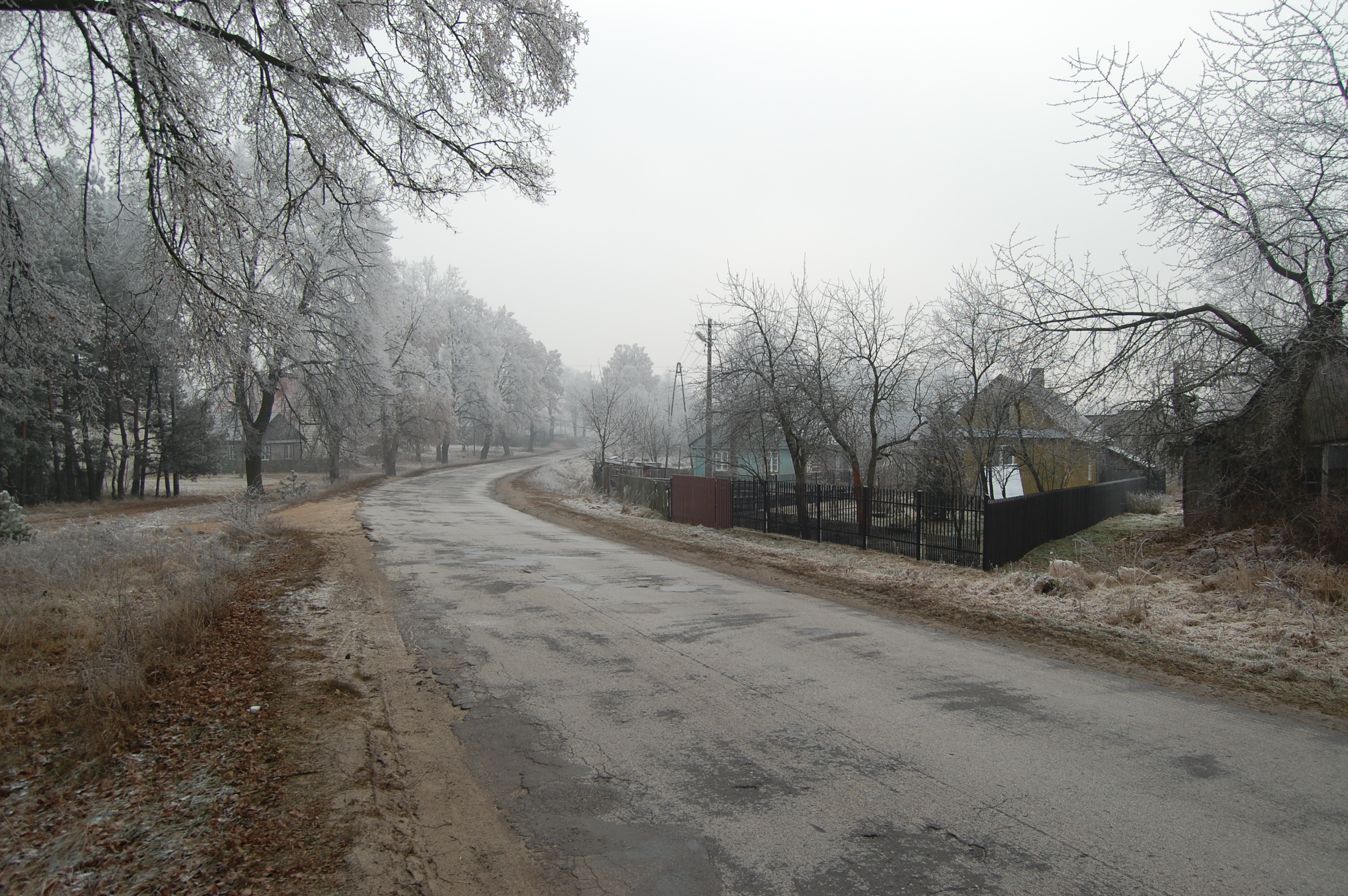 Traugutta street, Warda district, Żelechów, Poland